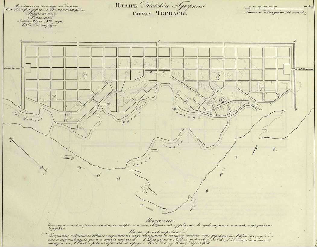 Plan of Cherkasy city. 1826